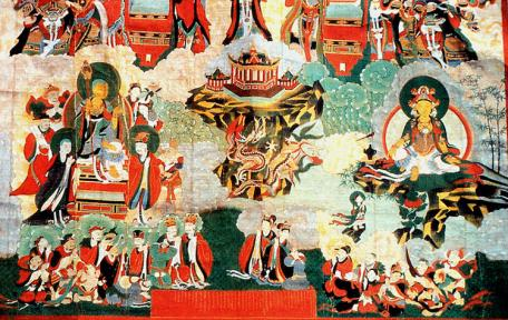 “칠장사오불회개불탱”의 하단의 “관음과지장보살”의 모습, The closeup of “Gwaneum and Jijangbosal” on the bottom of “Chiljangsa Obulhoe Gwaebul taeng” (painting of the five Buddhas) held by Chiljsangsa temple, South Korea